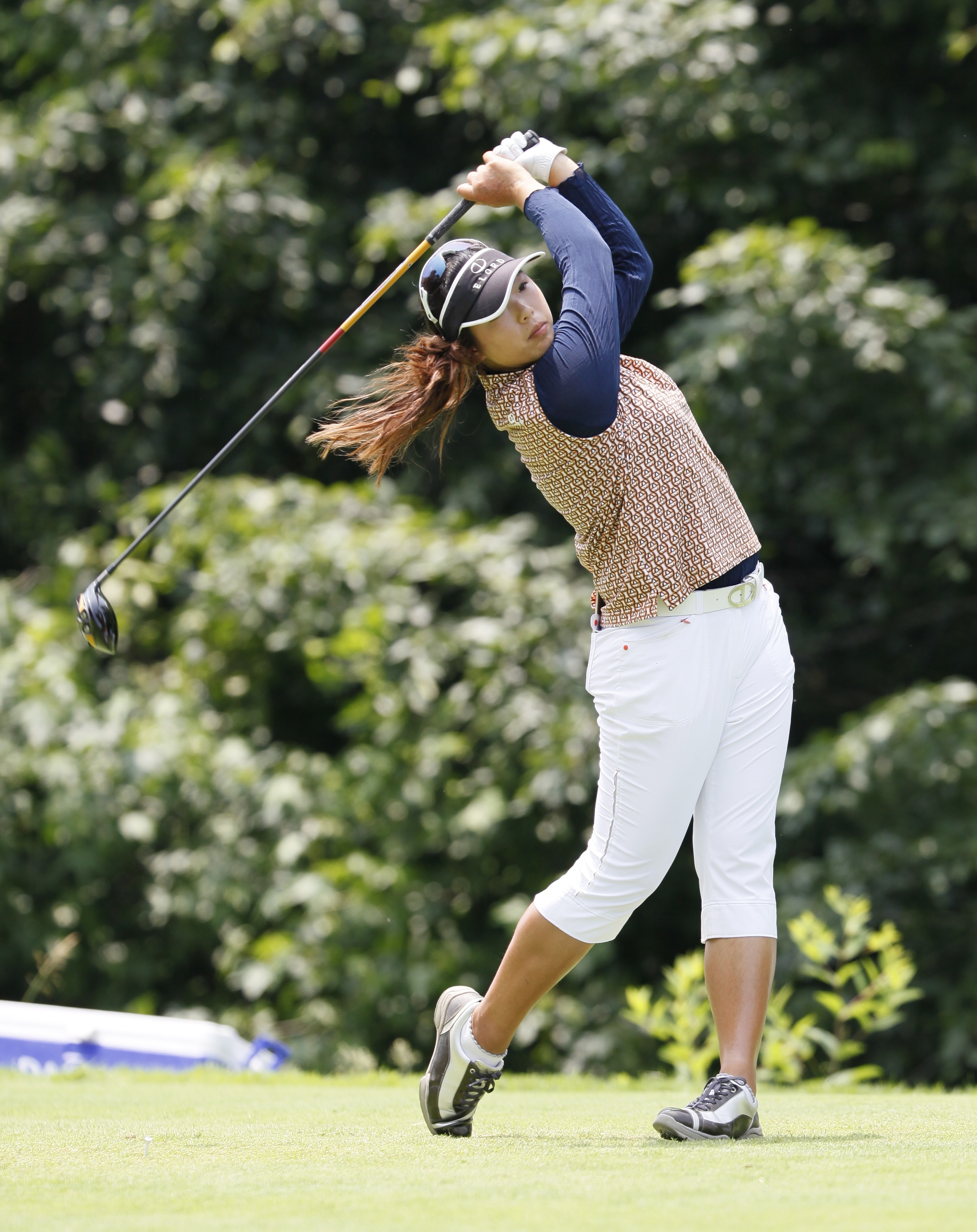 HAVRE DE GRACE, MD - JUNE 10: Shanshan Feng of China during practice round before 2009 LPGA Championship held at Bulle Rock Golf Course, on June 10, 2009 in Havre de Grace, Maryland. (Photo by Keith Allison)